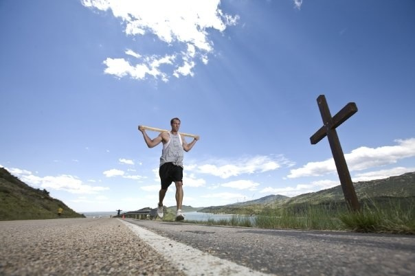 Gebben Miles surrendering to Jesus at Athletes in Action Ultimate Training Camp